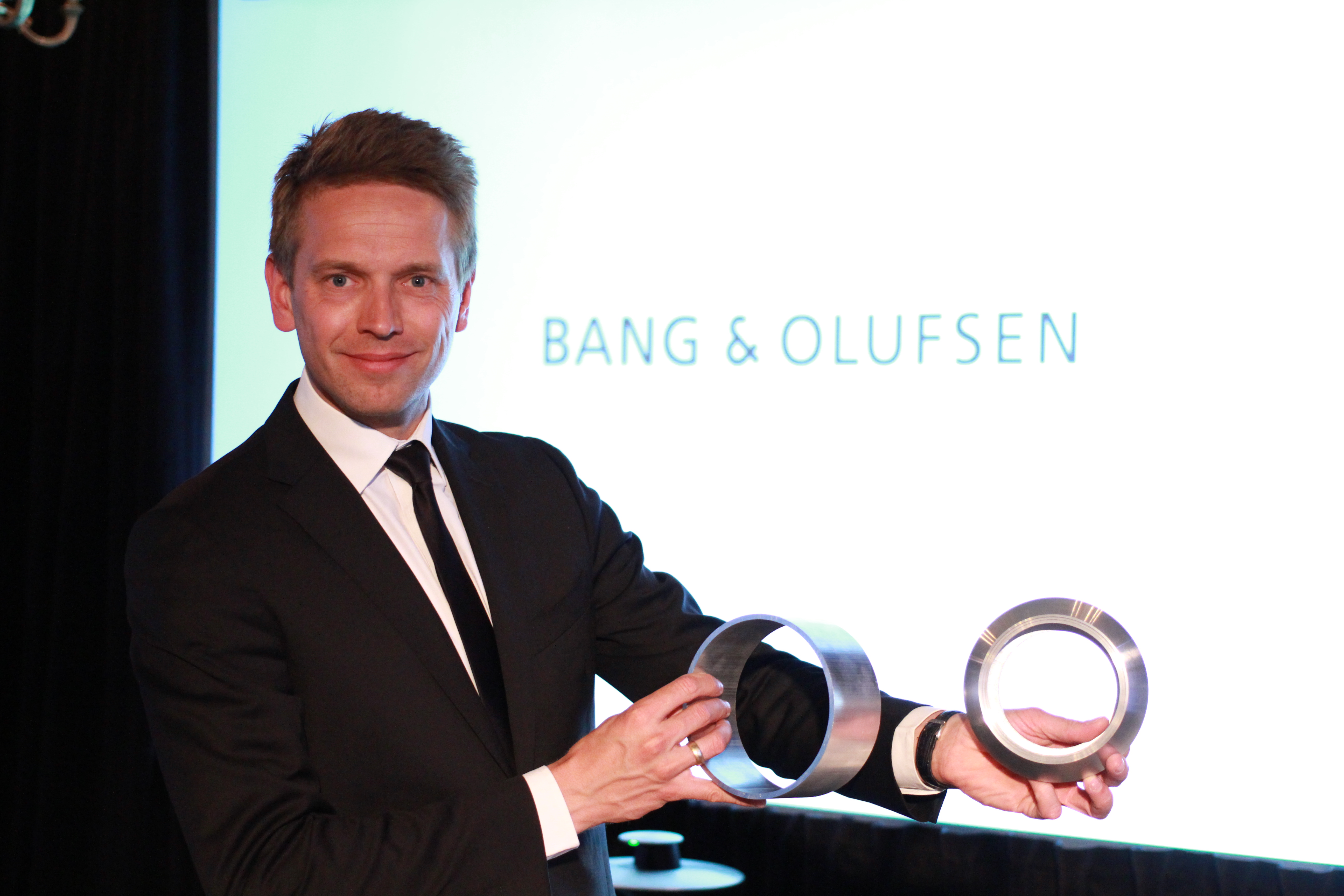 Tue Mantoni, Ceo of Bang & Olufsen